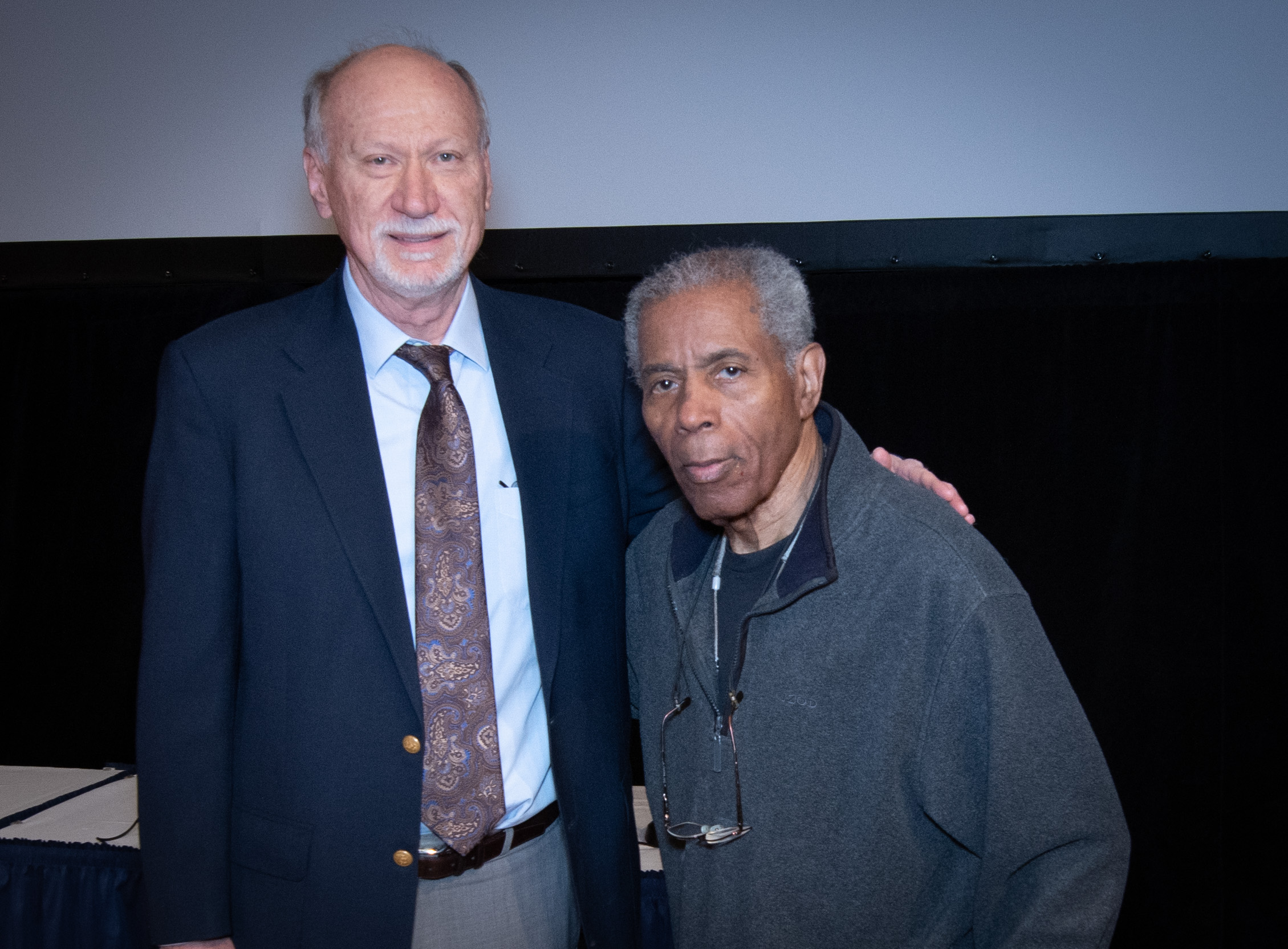 Paul Mohai & Bunyan Bryant in 2017